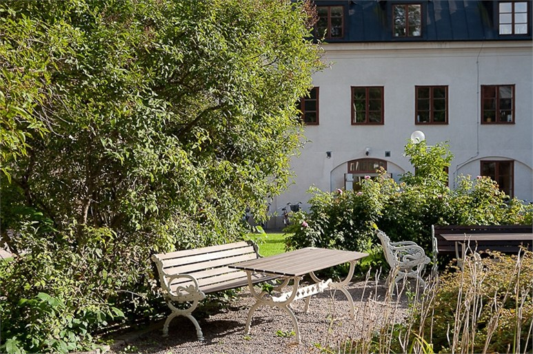 Grillska Gården, Uppsala.